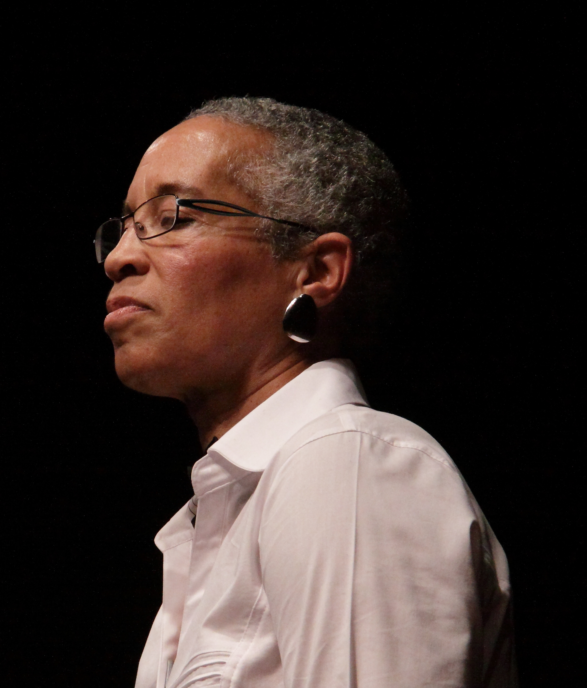 Photo of LaDoris Cordell taken in Palo Alto in 2016